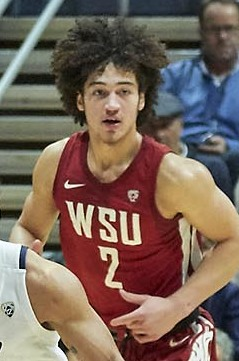 University of California Golden Bears host Washington State University Cougars, PAC12 Mens Basketball, Haas Pavilion, Berkeley, CA